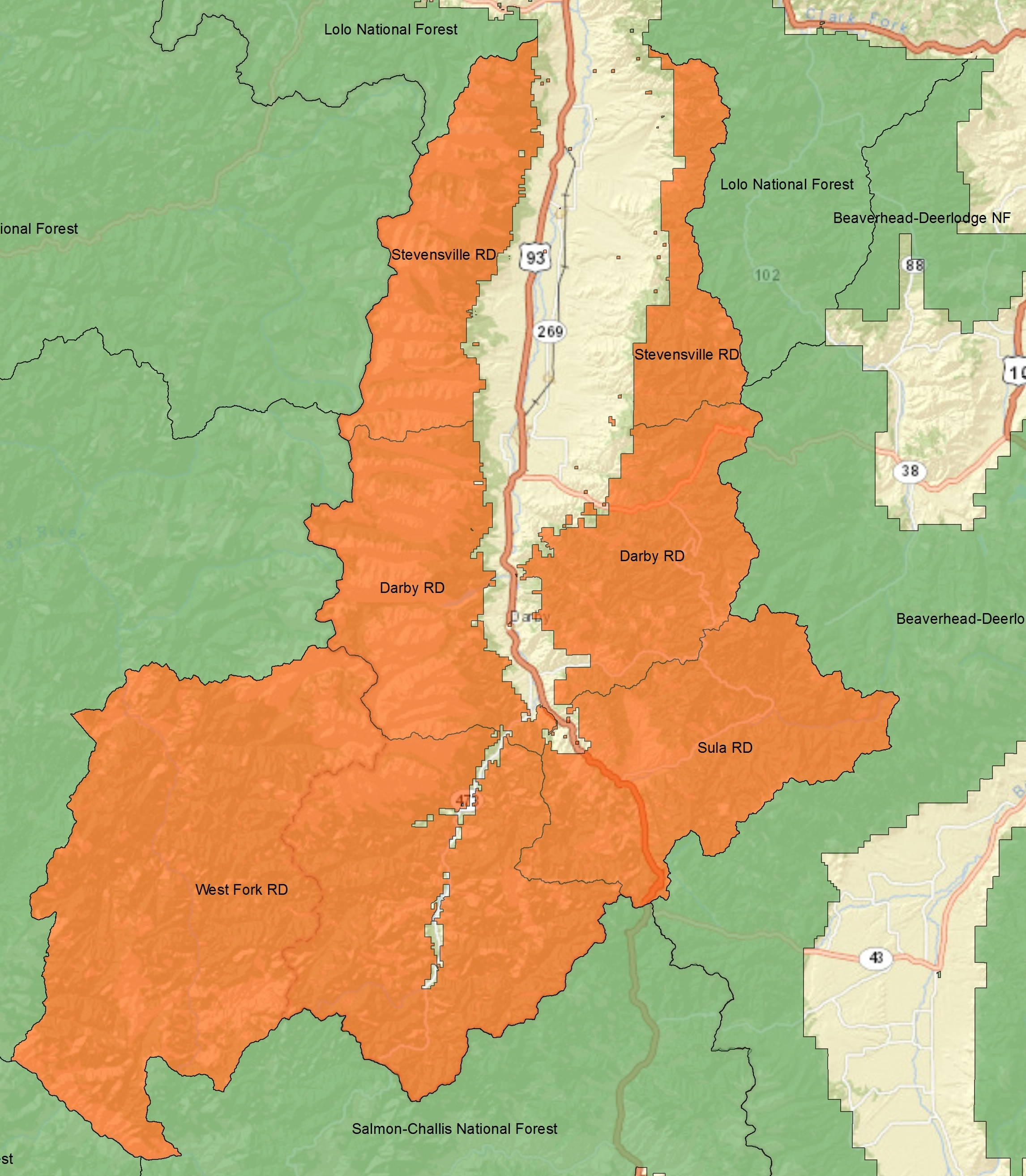 A map of the Bitterroot National Forest in western Montana and eastern Idaho. The Darby, Stevensville, Sula, and West Fork River Ranger Districts of the Bitterroot National Forest are in orange. The Bitterroot Mountains are protected within the National forest. Surrounding National forests are in green, including the Beaverhead-Deerlodge National Forest, Lolo National Forest, Salmon-Challis National Forest, and Clearwater National Forest (label not completely visible). Credits This map was made using ARCMAP 10.1, and all data are in the public domain. Forest Service boundary data are from the US Forest Service FSGeodata Clearinghouse